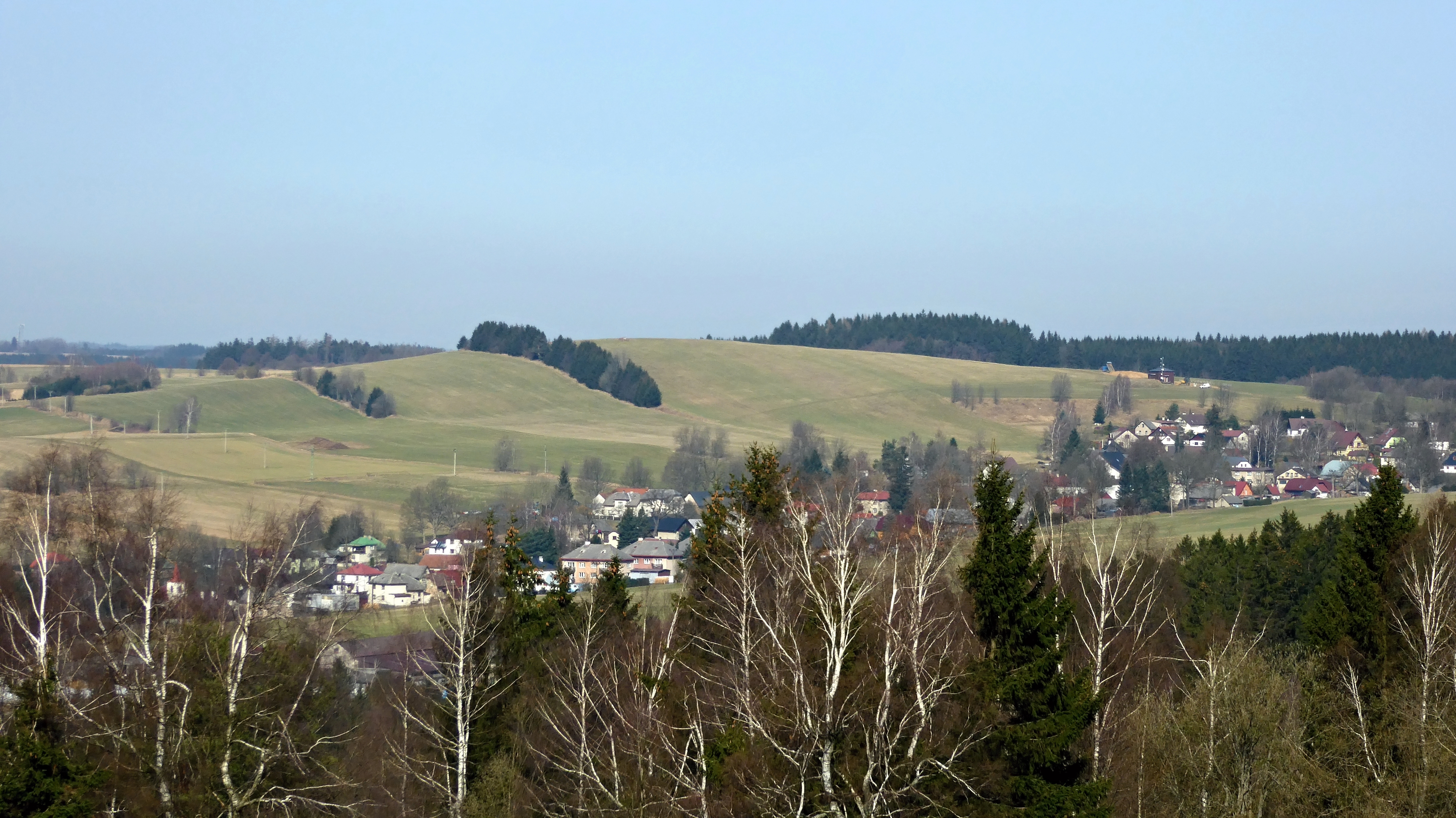 View from the slope no name (748,9 m asl.) to the top "U oběšeného" with an altitude of 737.4 m (in the middle of the shot) above the village of "Svratouch". Geographical name in czech written form "U oběšeného" is the standard name of the geographic object of hill type. The highest peak of the Iron Mountains lies in the south-eastern part of the mountain range with name "Sečská" Highlands, in the geomorphological district "Kameničská" Highlands. Photo-location: Czechia, Pardubice Region, the village of "Svratouch". Source of information: State Administration of Land Surveying and Cadastre – website, see